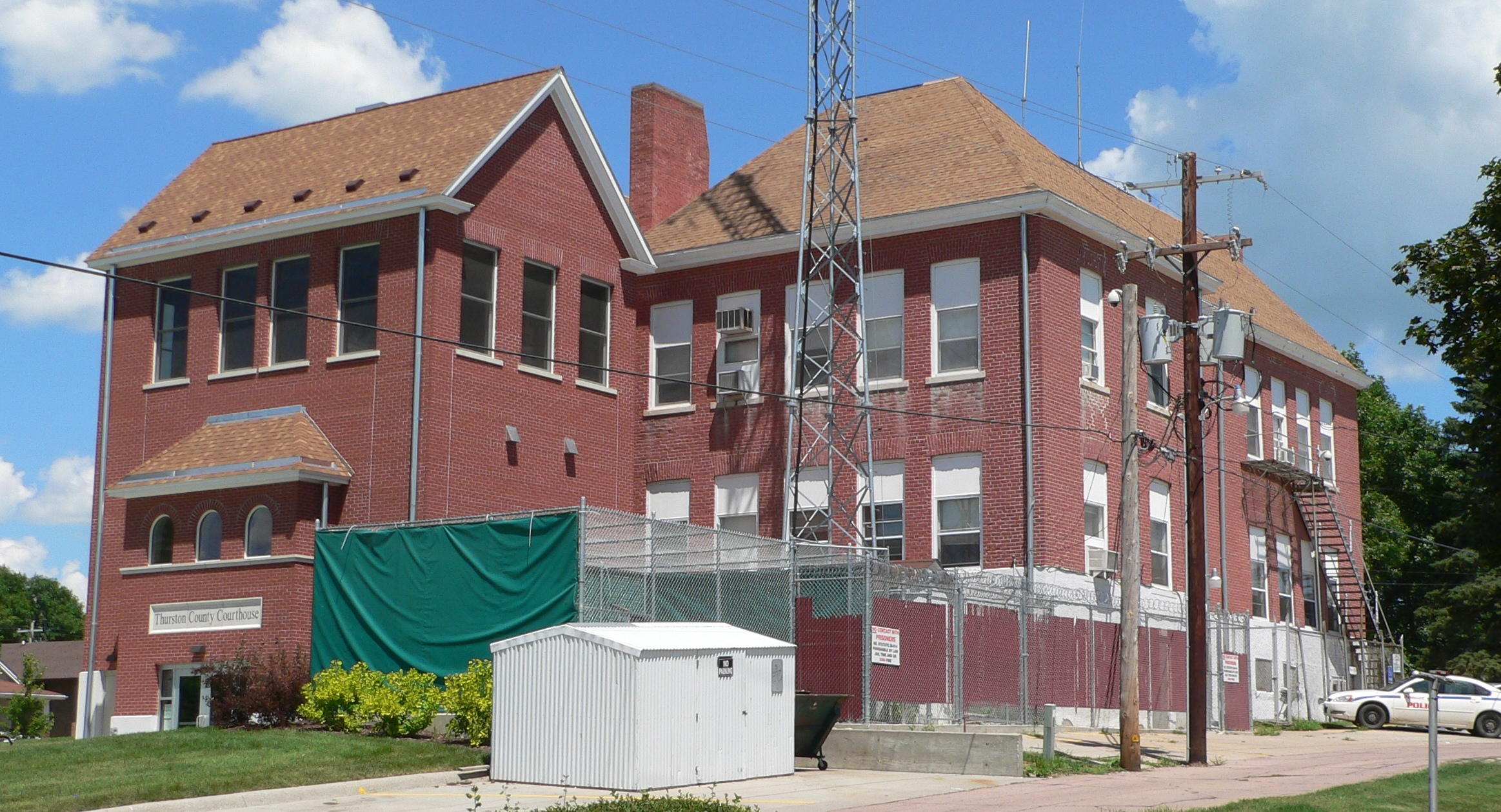 Thurston County Courthouse in Pender, Nebraska; seen from the southwest. The original building was constructed in 1895; the portion at left is apparently a more recent addition. It is listed in the National Register of Historic Places.